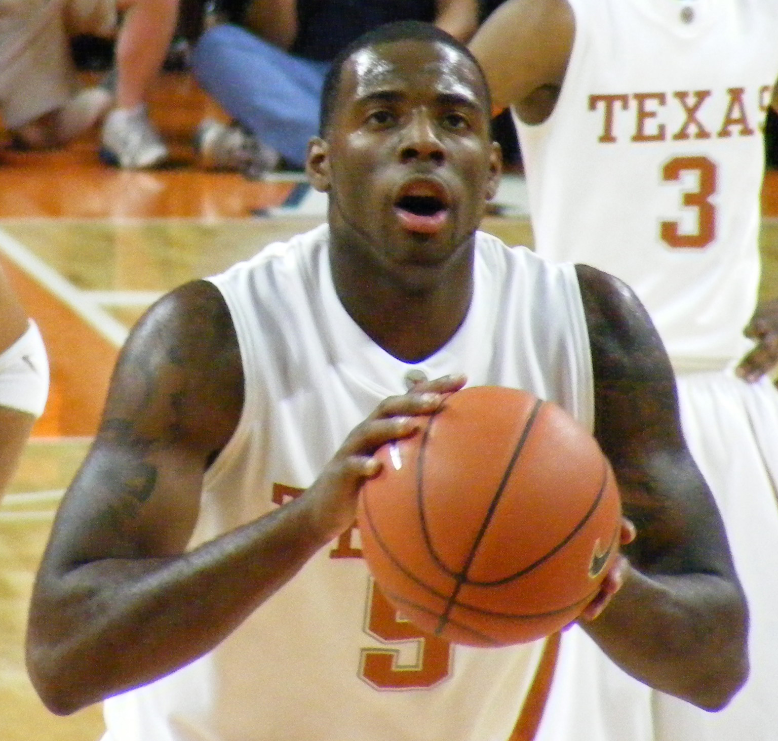 Damion James taking a free-throw against Texas A&M on 2008-02-18.